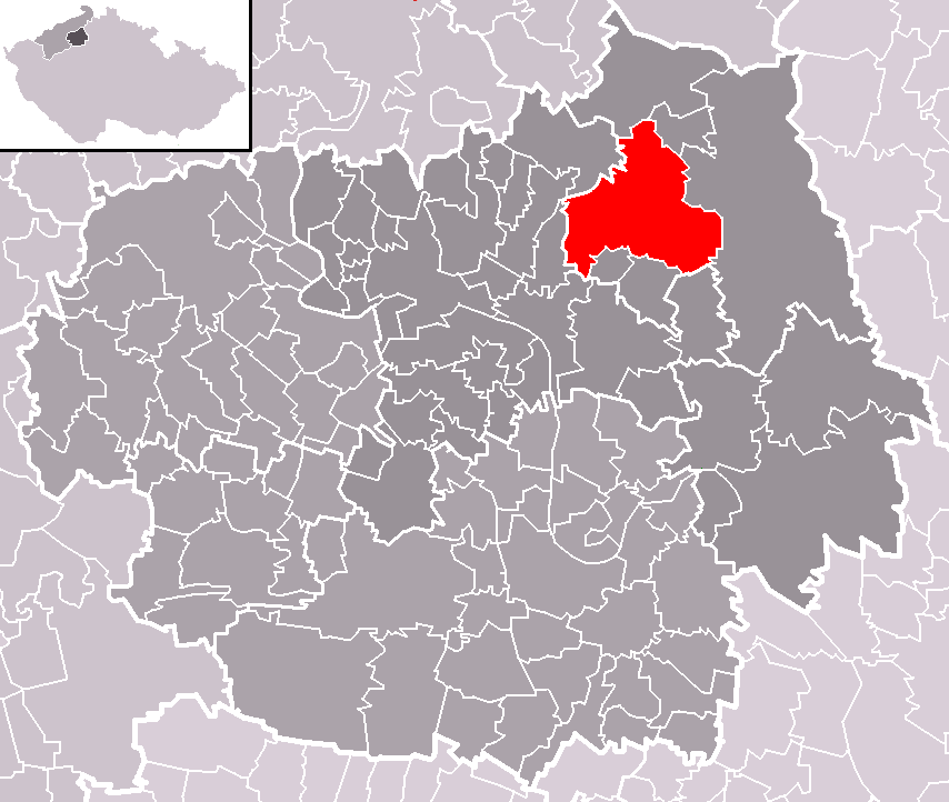 Location of Liběšice municipality within Litoměřice District and administrative area of Litoměřice as a Municipality with Extended Competence.